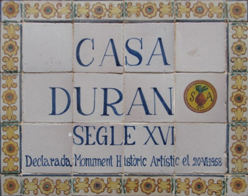 Casa Duran (Sabadell, Vallès Occidental, Catalonia).